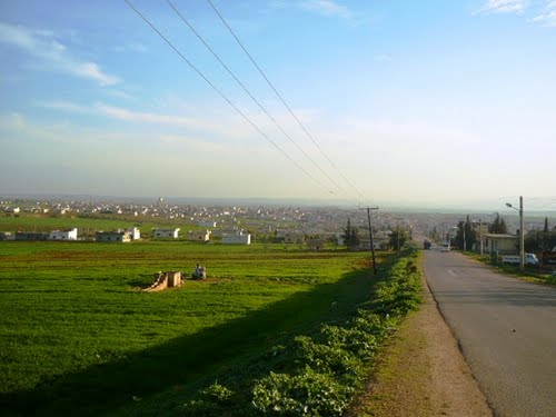 مدخل بلدة كرناز منالجهةالشمالية